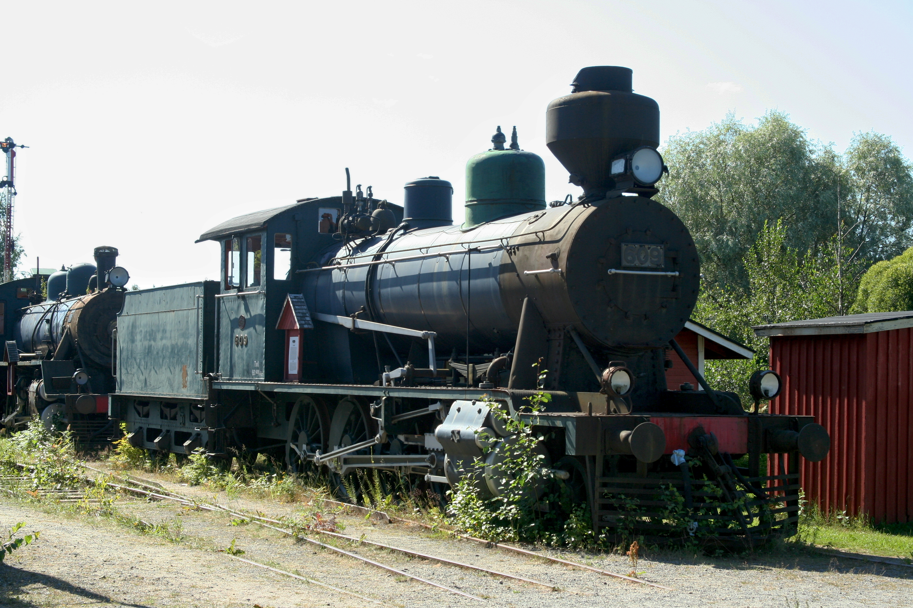 A VR Class Tv1 steam locomotive (no. 609, built by Tampella in 1917) at Haapamäki Steam Locomotive Museum in Keuruu, Finland.